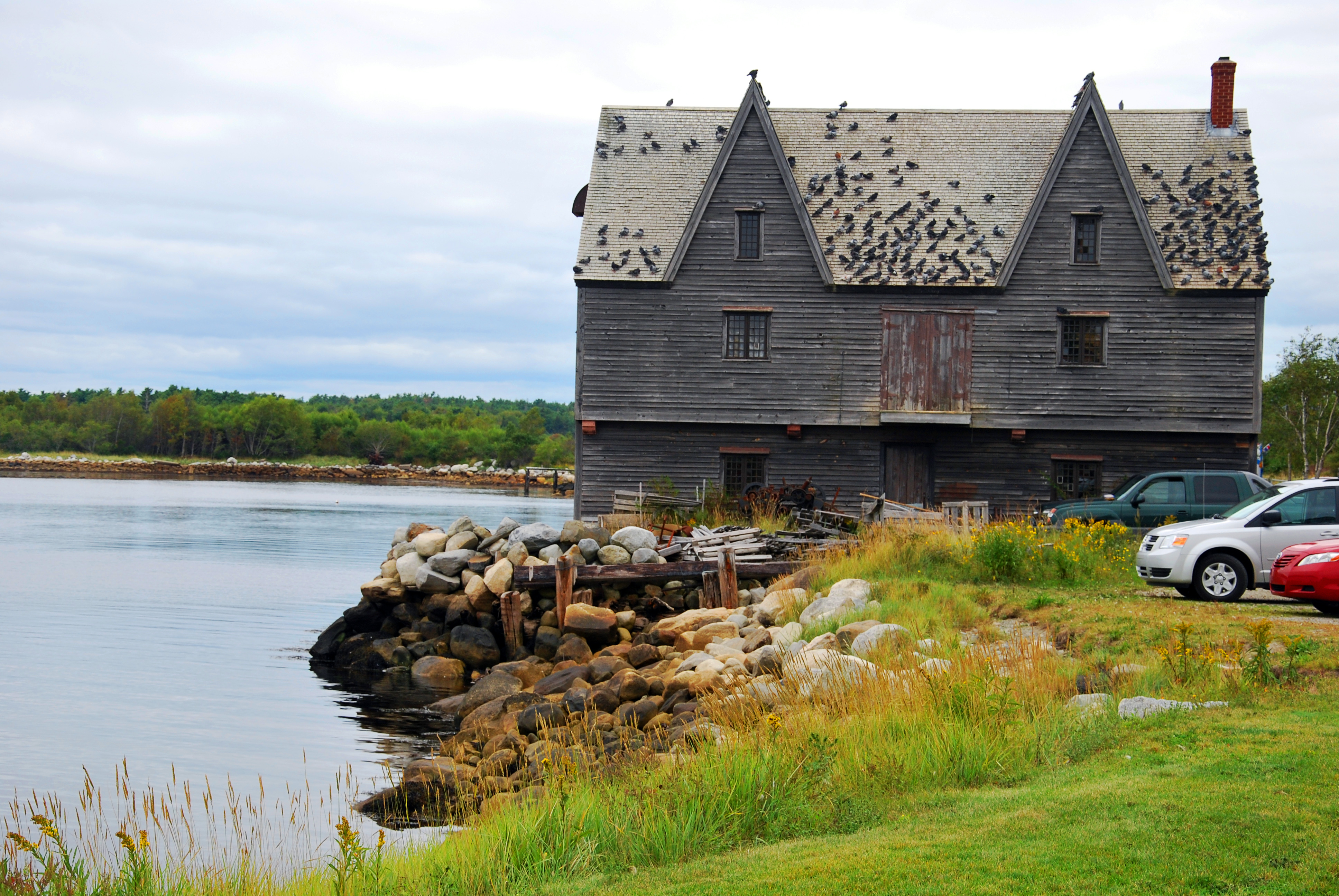 Shelburne Nova Scotia 2009